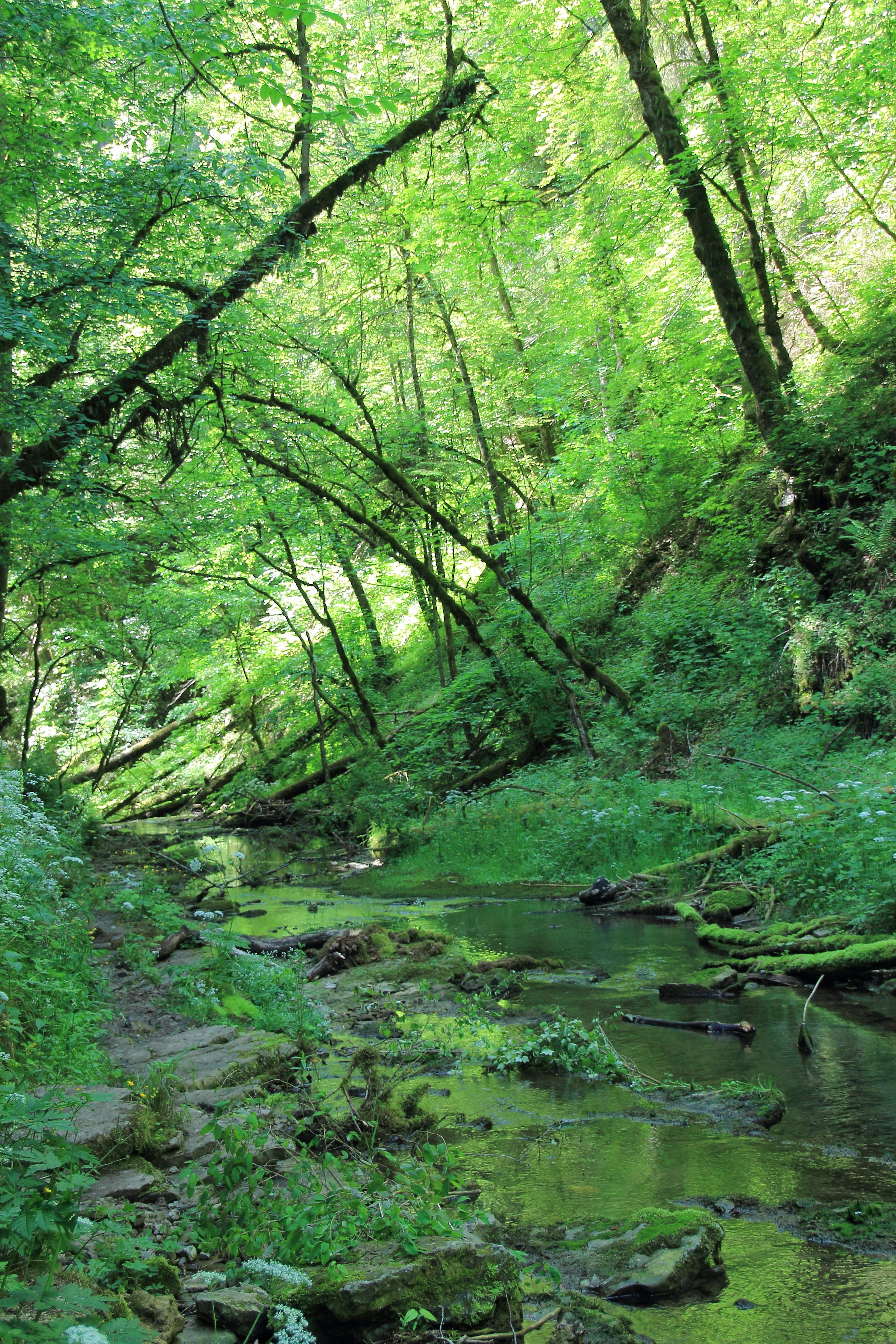 The river "Gauchach" in the "Gauchachschlucht" in the natural reserve "Wutachschlucht" in Baden-Württemberg, Germany.